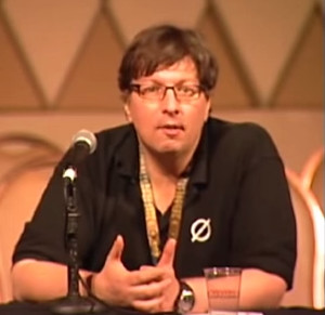 Matt Blaze Director, Distributed Systems Lab at the University of Pennsylvania debates Whether and How Open WiFi Sniffing Should Be Regulated, at DEF CON 20.